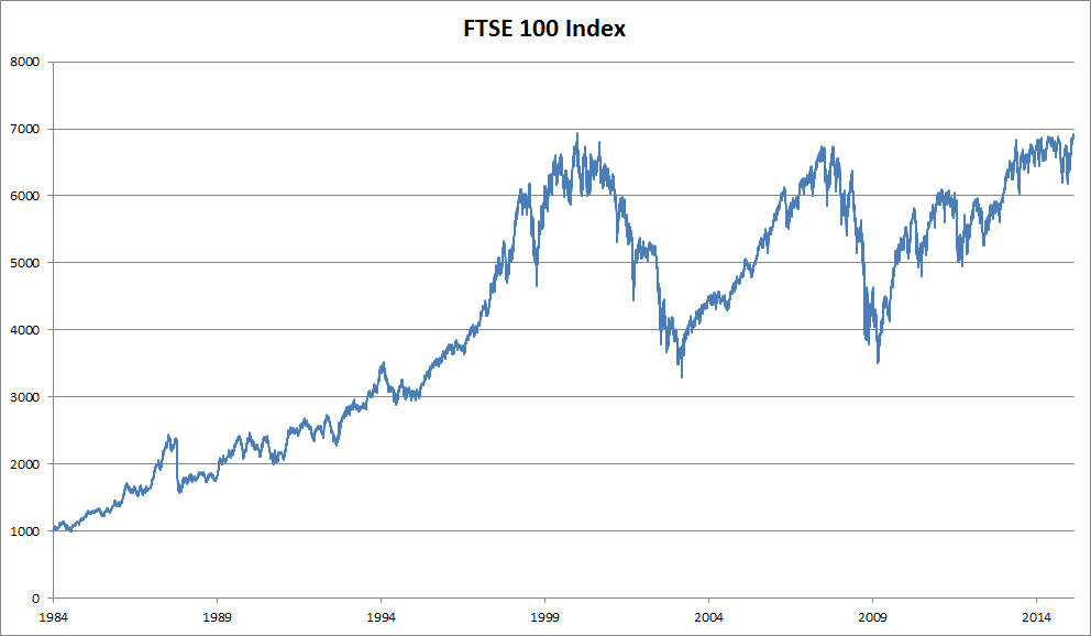 Chart of the highs and lows of the FTSE 100 Index. It is different from the existing FTSE 100 Index.png because that one has misleading axes and data back further in the past, apparently before the FTSE 100 existed. Other information Chart by OpenOffice, Image by Gimp